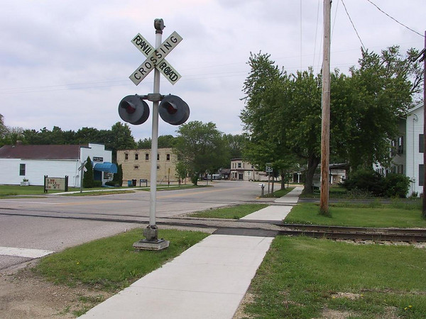 The old railroad tracks in downtown McFarland, Wisconsin. The road in the picture has recently been paved over with asphalt.